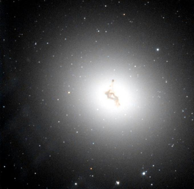 NGC 3311 - Extragalactic Globular Cluster Systems - HST Proposal 6554